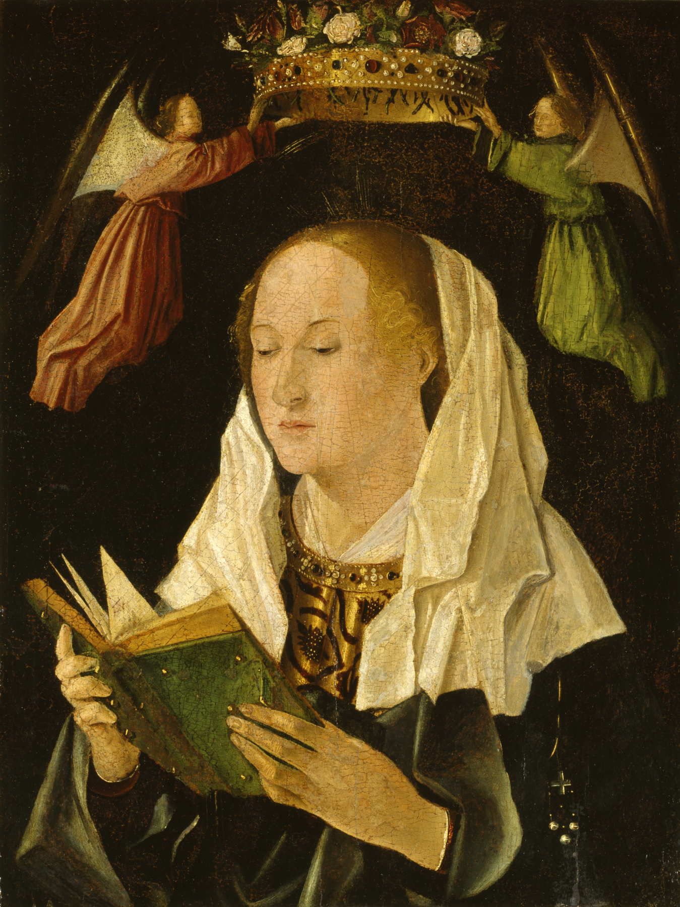 In this devotional panel, the Virgin Mary is depicted reading. Her status as the Queen of Heaven is emphasized by the golden crown-studded with jewels and pearls and adorned with red and white roses-held by the angels. Attached to the Virgin's mantle is a small pendant cross from which pearls are suspended. Antonello's preference for geometric shapes is characteristic of the early Italian Renaissance. From his study of contemporary Flemish painting, the artist had learned about the use of oil glazes. The technique permitted him to create unprecedented rich details with textures that reflected light in different ways. This is particularly visible in the crown.